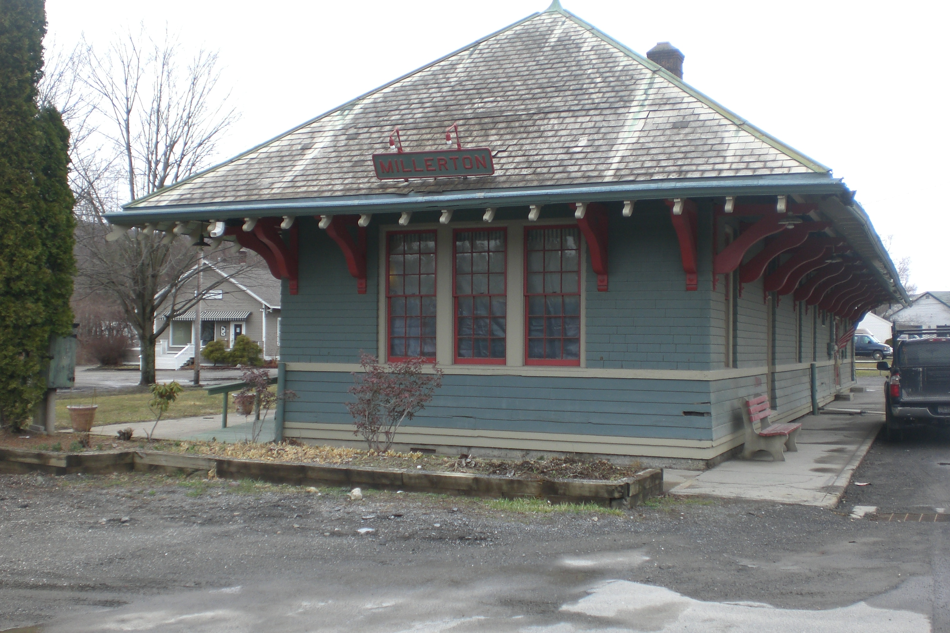 A view of the former New York Central Railroad, Millerton train station. Currently the building is vacant